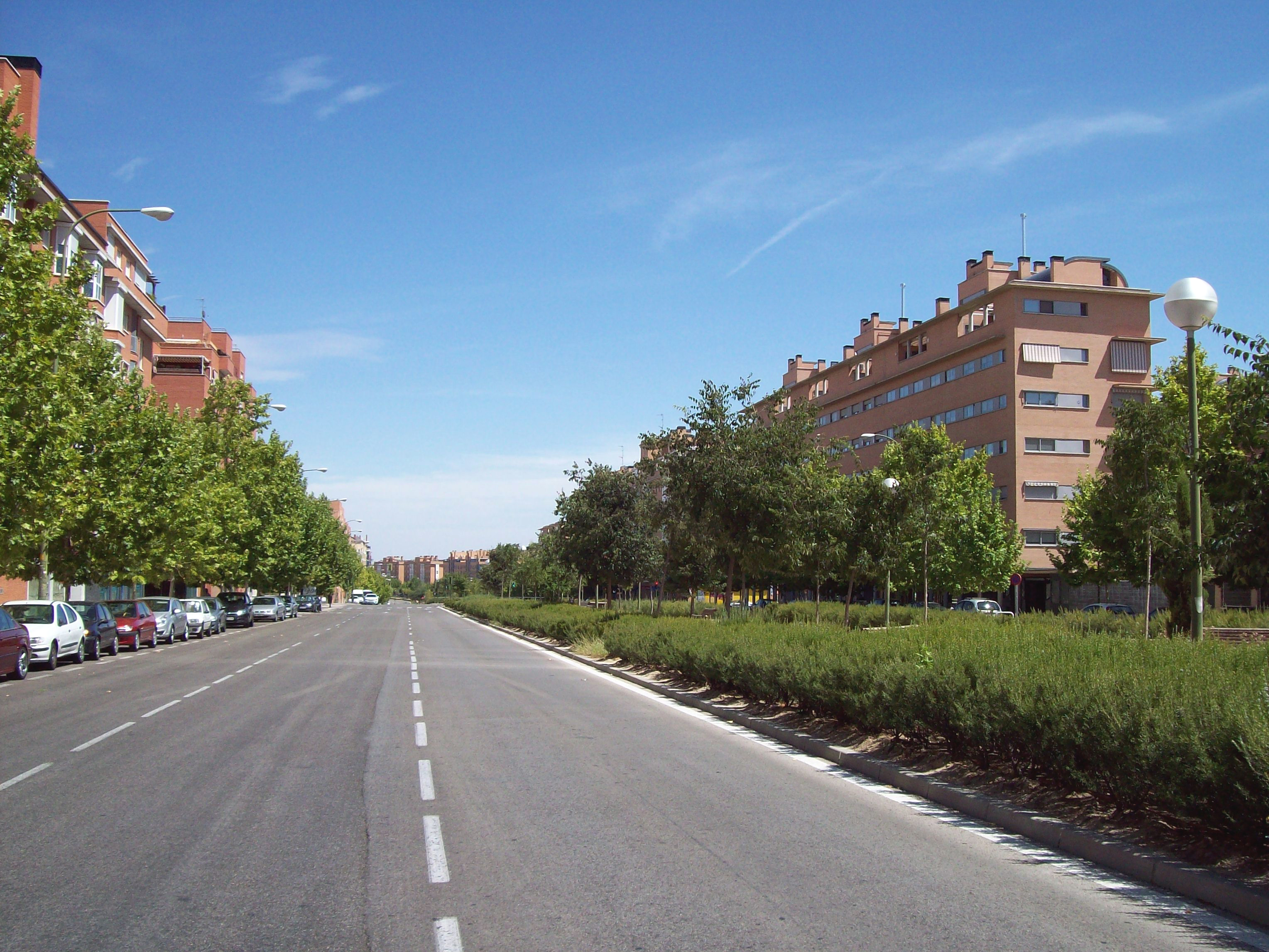 A view from Avenida de la Peseta (an avenue) in Carabanchel district in Madrid (Spain).